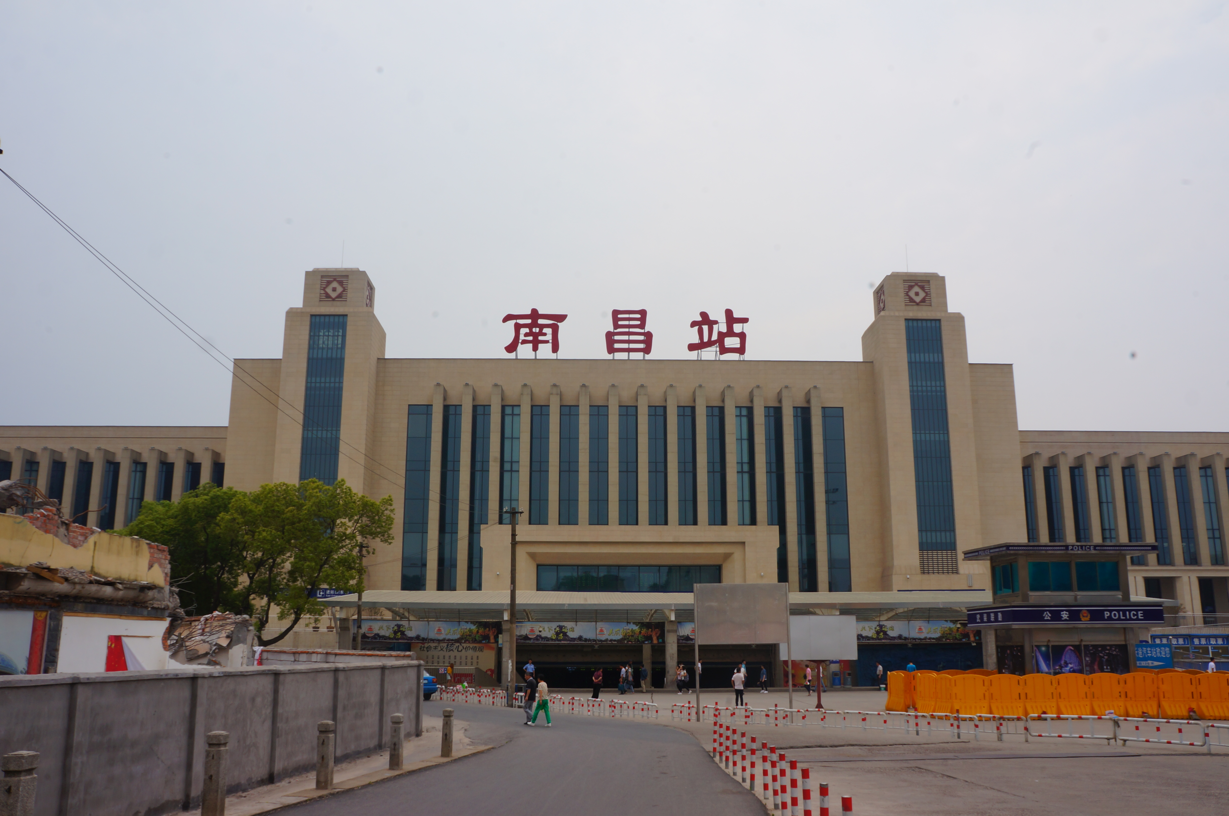 201705 East Facade of Nanchang Railway Station building